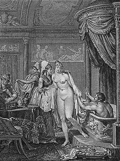 Illustration to "The Orleans Maid" by Voltaire, 1819